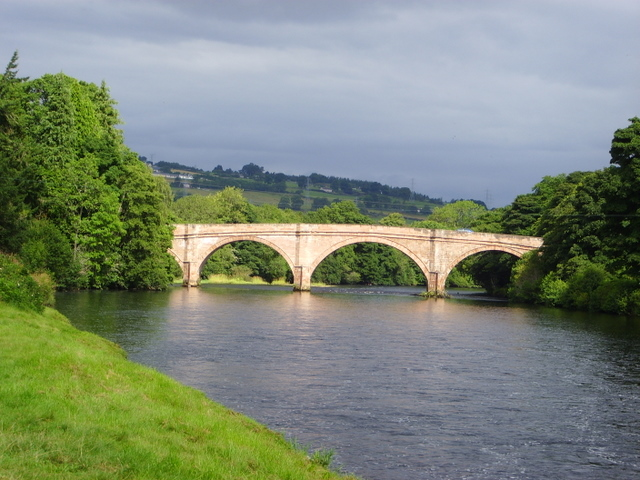 Lovat Bridge